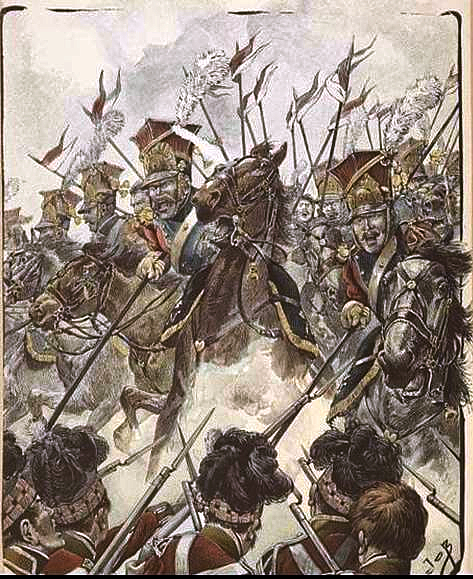 Red Lancers of the Imperial Guard charging on Scottish infantry at the battle of Waterloo (18th June 1815).